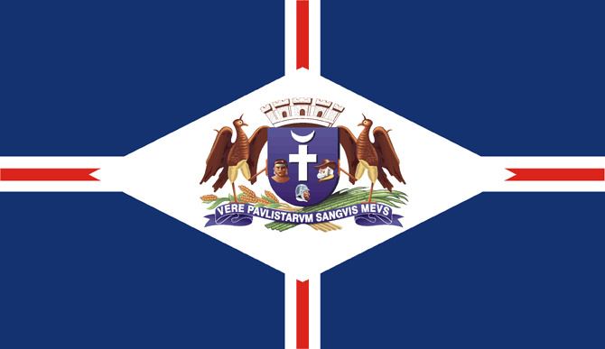 Flag of city of Guarulhos, São Paulo, Brazil